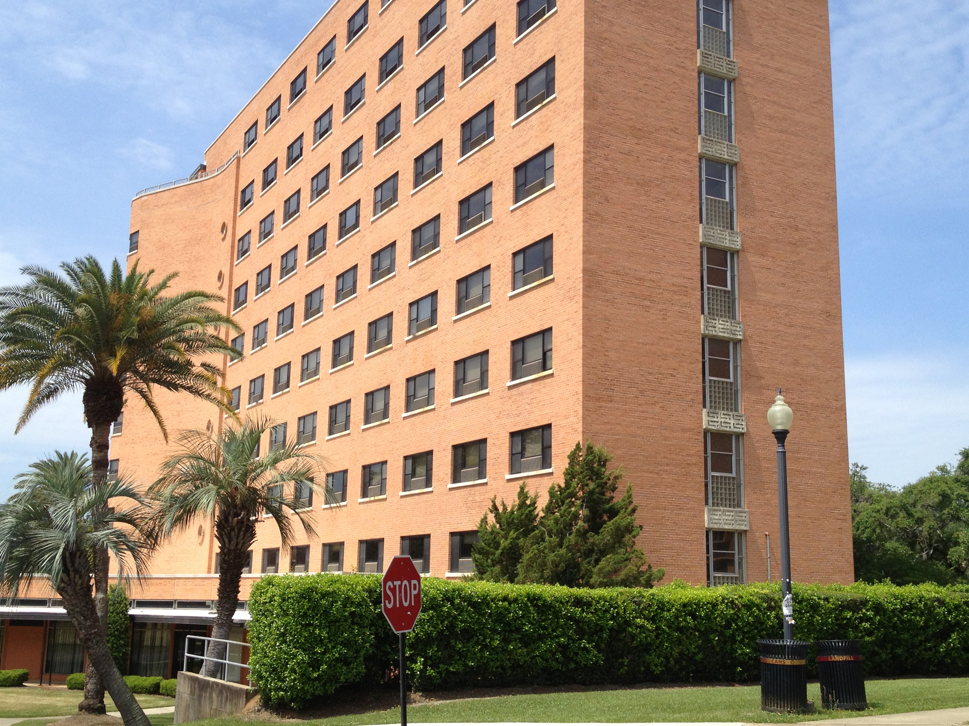 The building Smith Hall at FSU